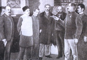 The first bulletproof vest on the world made by the Polish inventor Jan Szczepanik. On the photo - the test of the invention in Kraków (1901) done on the inventor's servant.